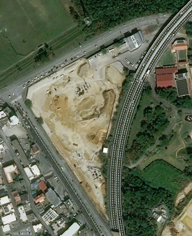 Okinawa Arena Building Site 2018